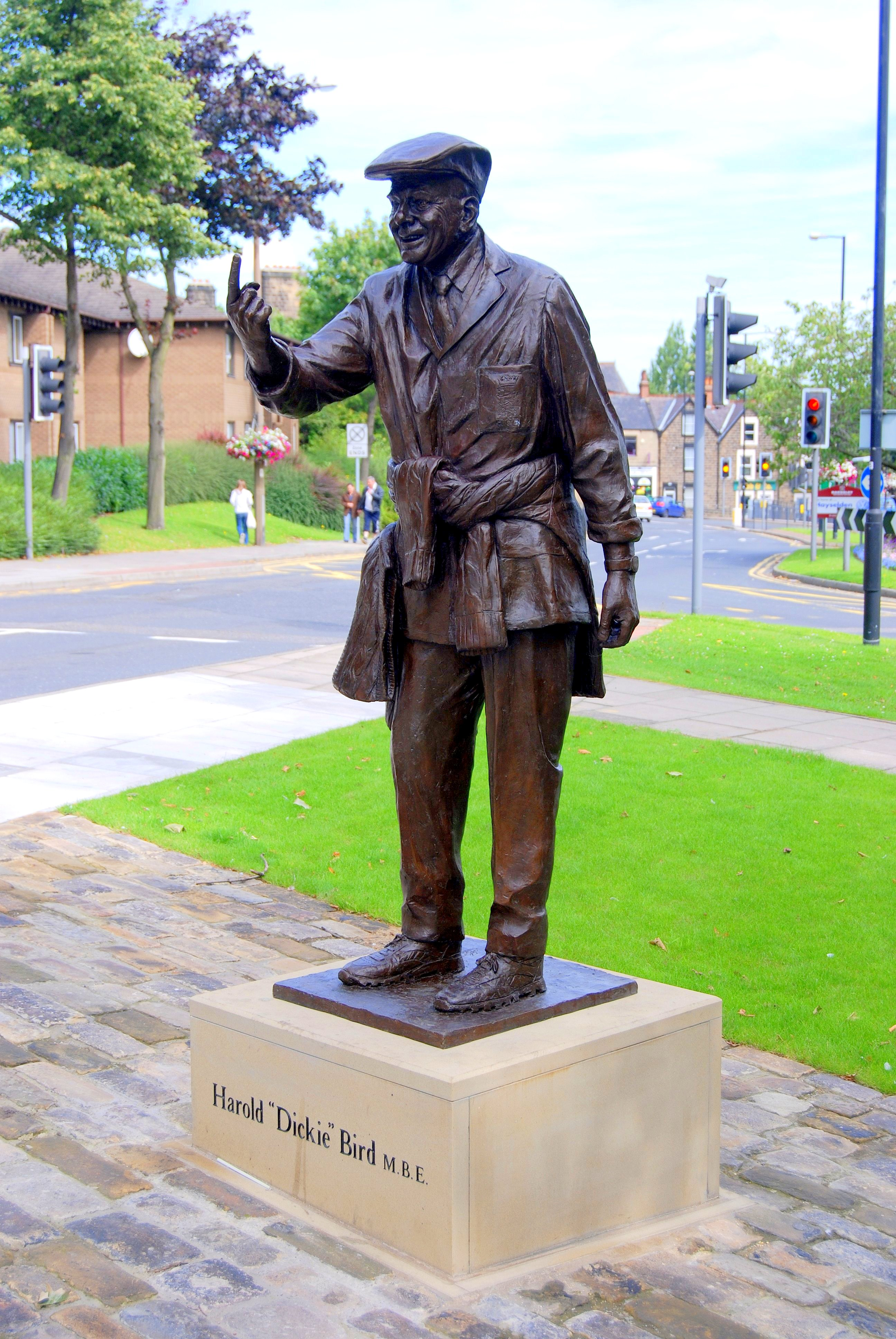 Harold 'Dickie' Bird OBE MBE a famous son of Barnsley.